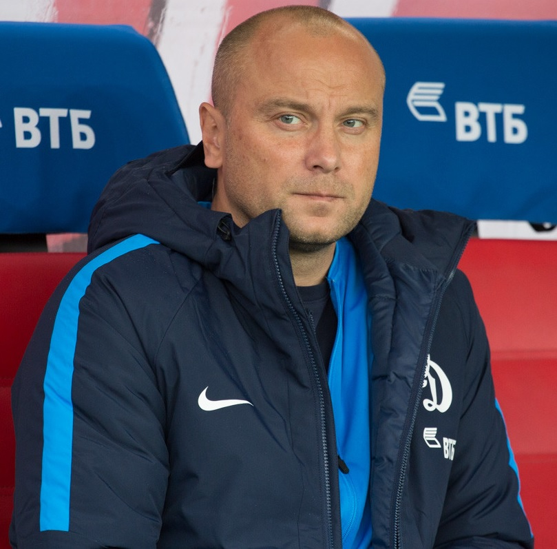 Dmitri Khokhlov coaching FC Dynamo Moscow in a game against FC SKA-Khabarovsk.